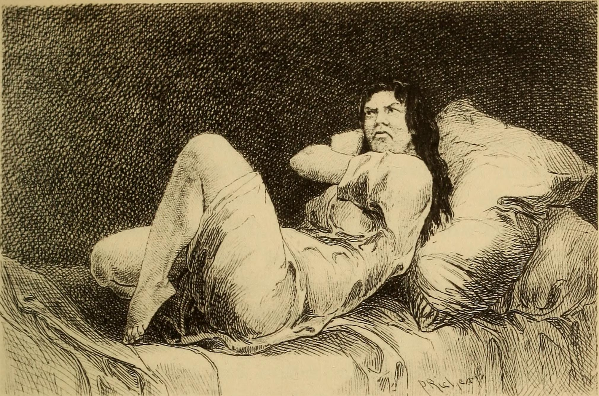 Hysteria: its nature and treatment: Convulsive Attack-Third period or period of passionate attitudes. The Phase of Sadness. Title: Hysteria and certain allied conditions, their nature and treatment, with special reference to the application of the rest cure, massage, electrotherapy, hypnotism, etc Year: 1897 (1890s) Authors: Preston, George J. (George Junkin), b. 1858 Subjects: Publisher: Philadelphia, P. Blakiston, son & co.